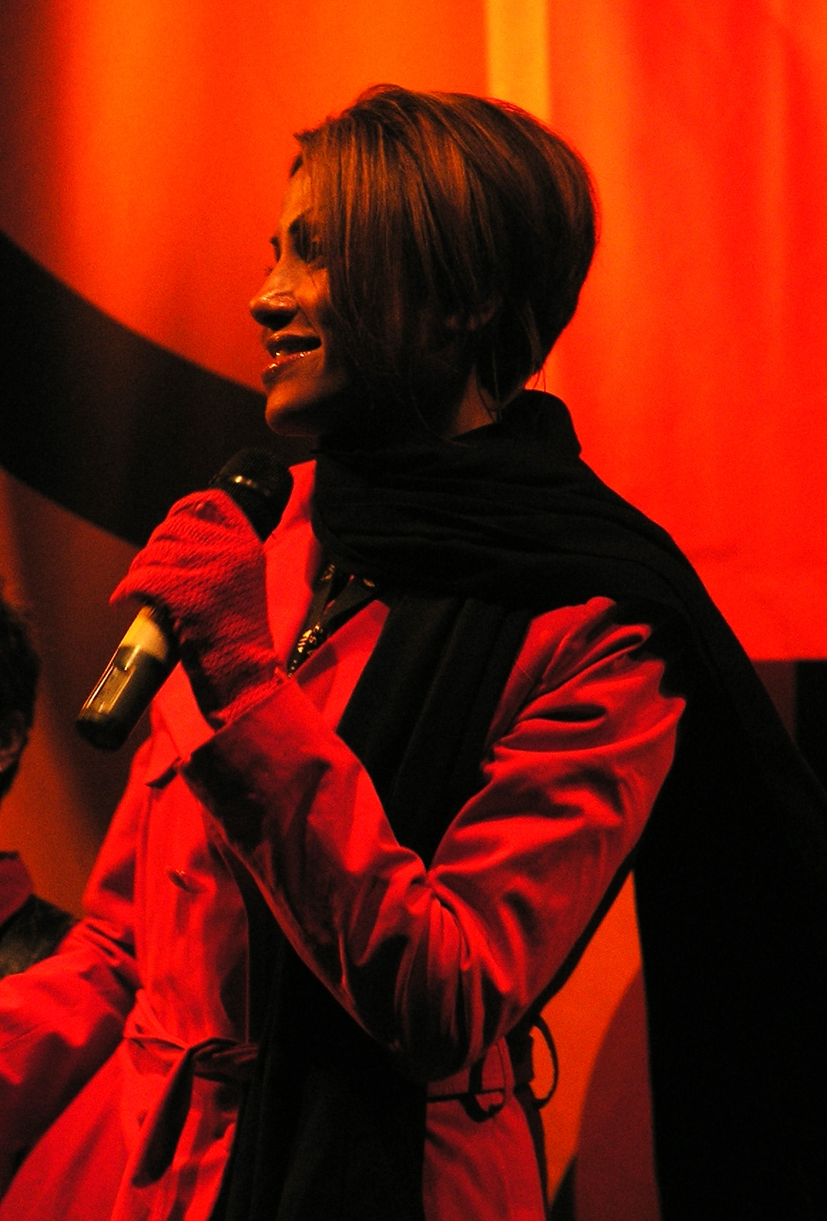 Sabrina Setlur playing a concert in Wiesbaden, Germany, in november 2007